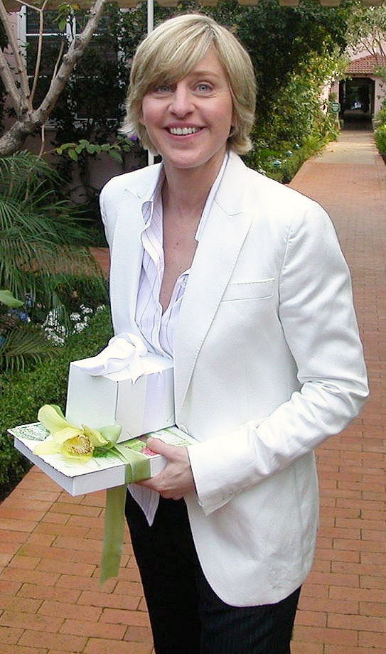 Ellen DeGeneres at Hotel Bel Air in Los Angeles attending Oprah Winfrey's birthday party.